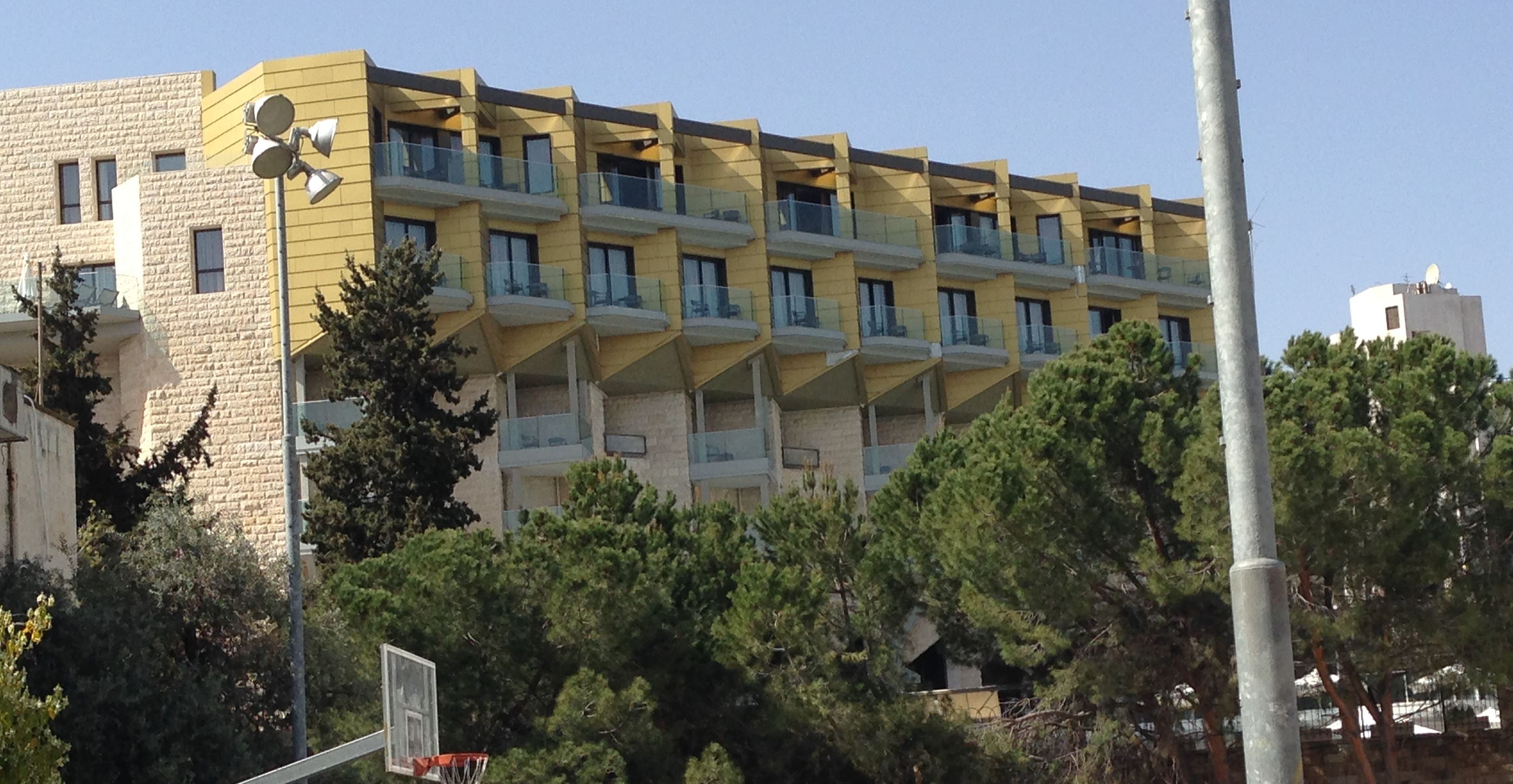 Inbal Hotel in Jerusalem from south, with an addition of two storeys in different color and texture, and with a different shape of the external porches.